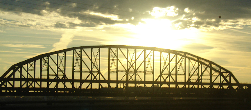 View of the MacArthur Bridge in St. Louis from the Poplar Street Bridge. December 2006 - Image by Georgi Petrov